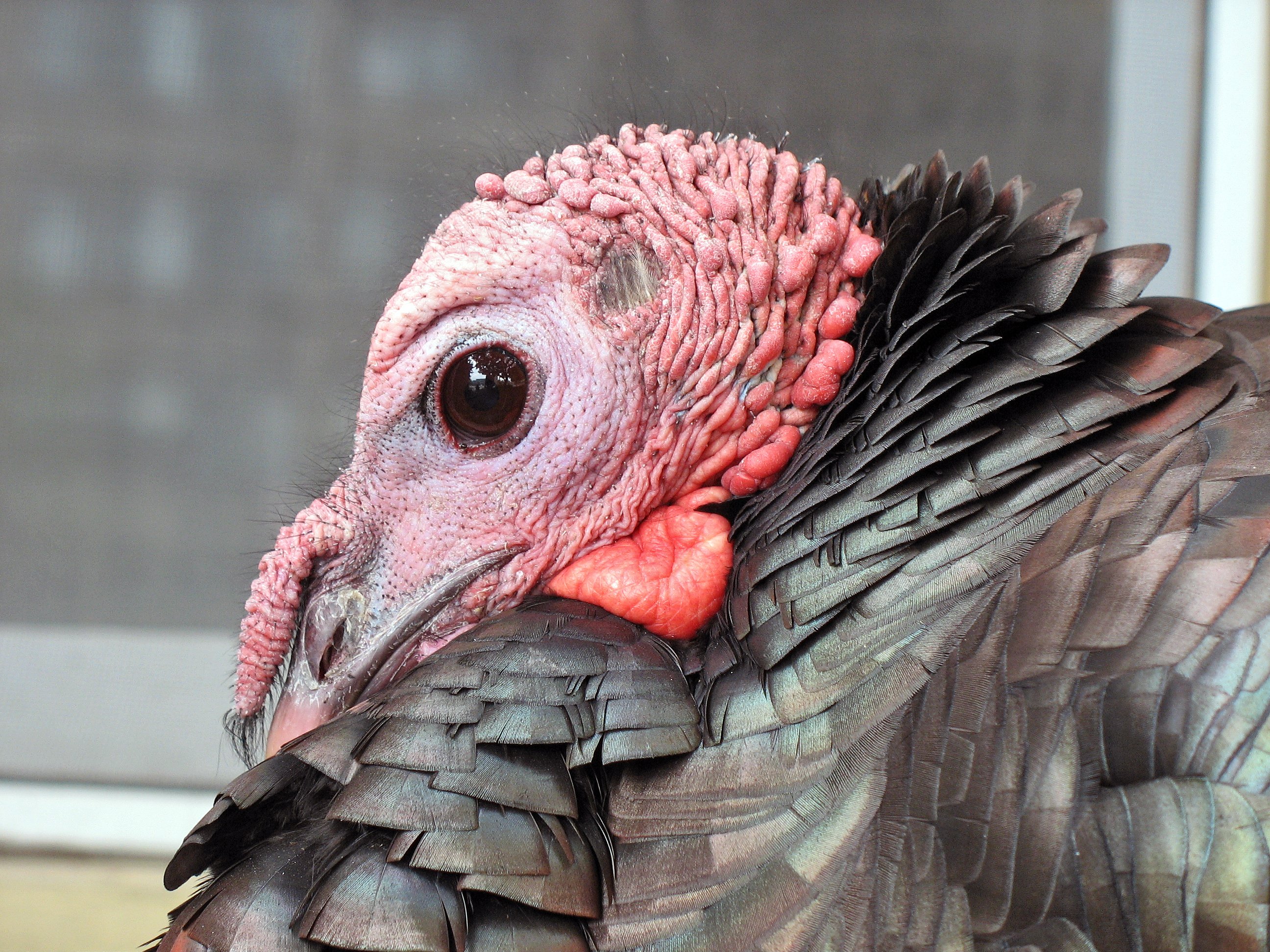 Male wild turkey in Brookline, Massachusetts, United States of America. He frequents the area on Beacon Street between Washington Square and Cleveland Circle.